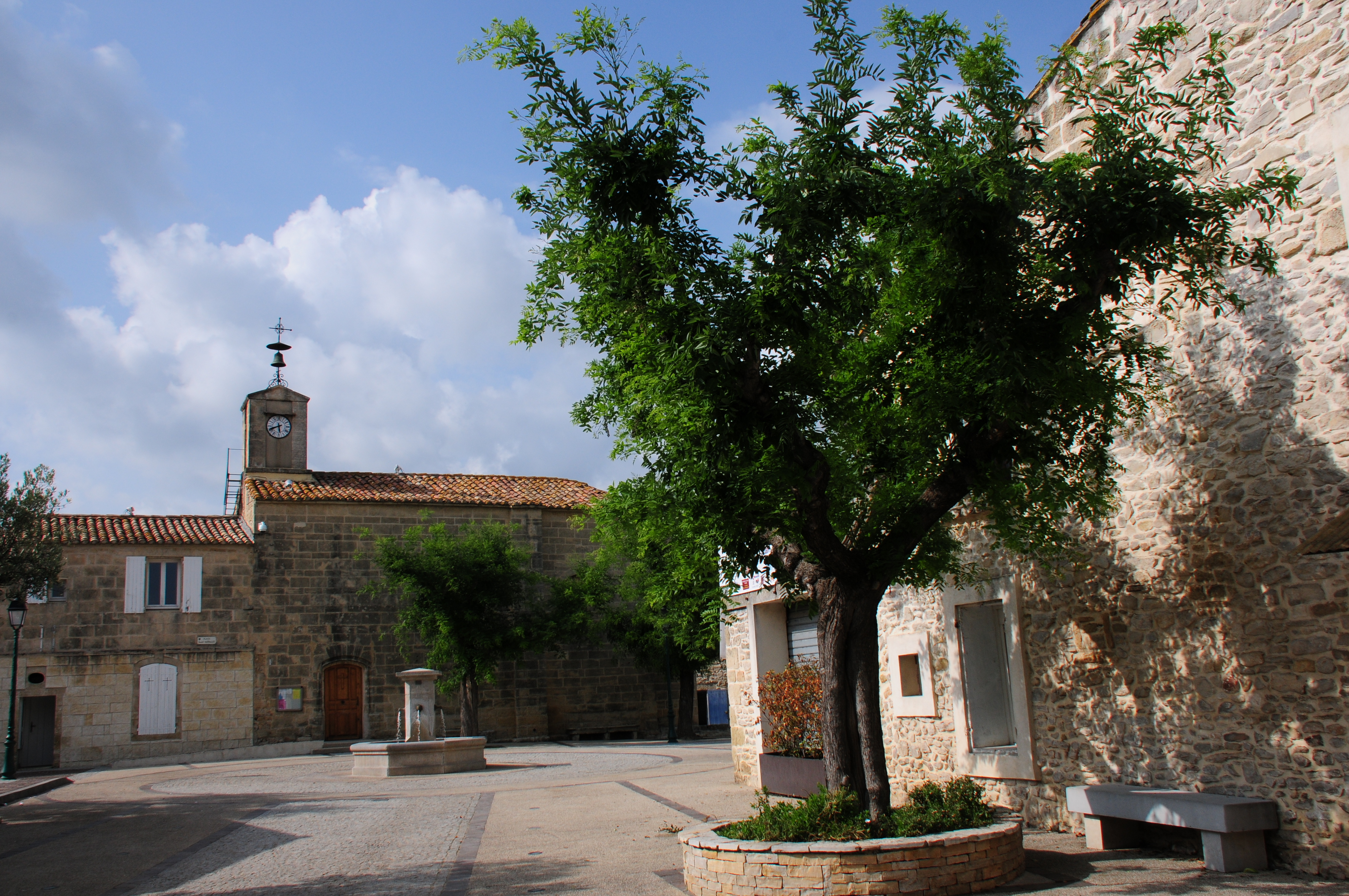 Church of Villetelle as seen from the Eastside